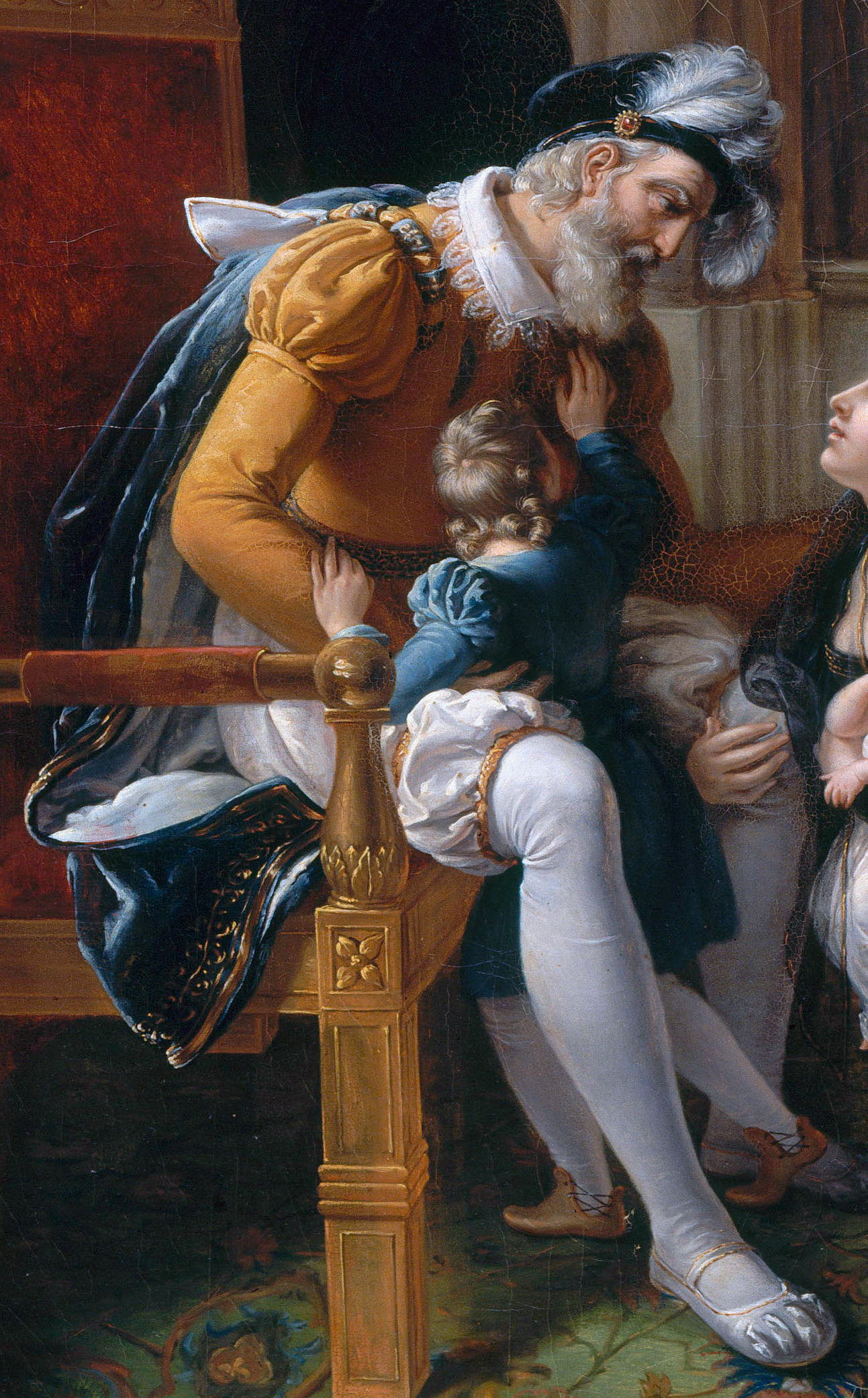 Inês de Castro with Her Children at the Feet of Afonso IV, King of Portugal, Seeking Clemency for Her Husband, Don Pedro, 1335